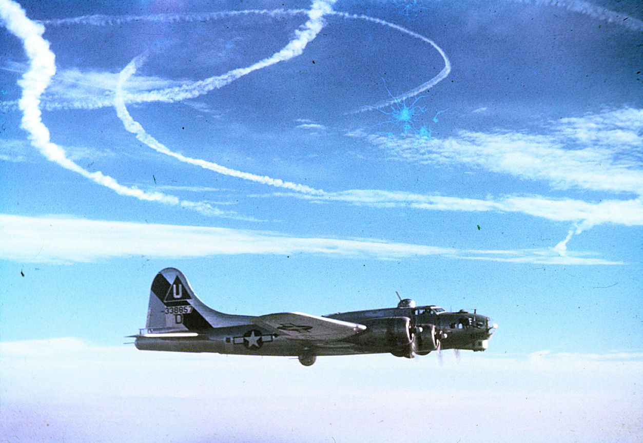 A B-17 Flying Fortress (serial number 43-38857) nicknamed "Bluebell D" of the 457th Bomb Group.